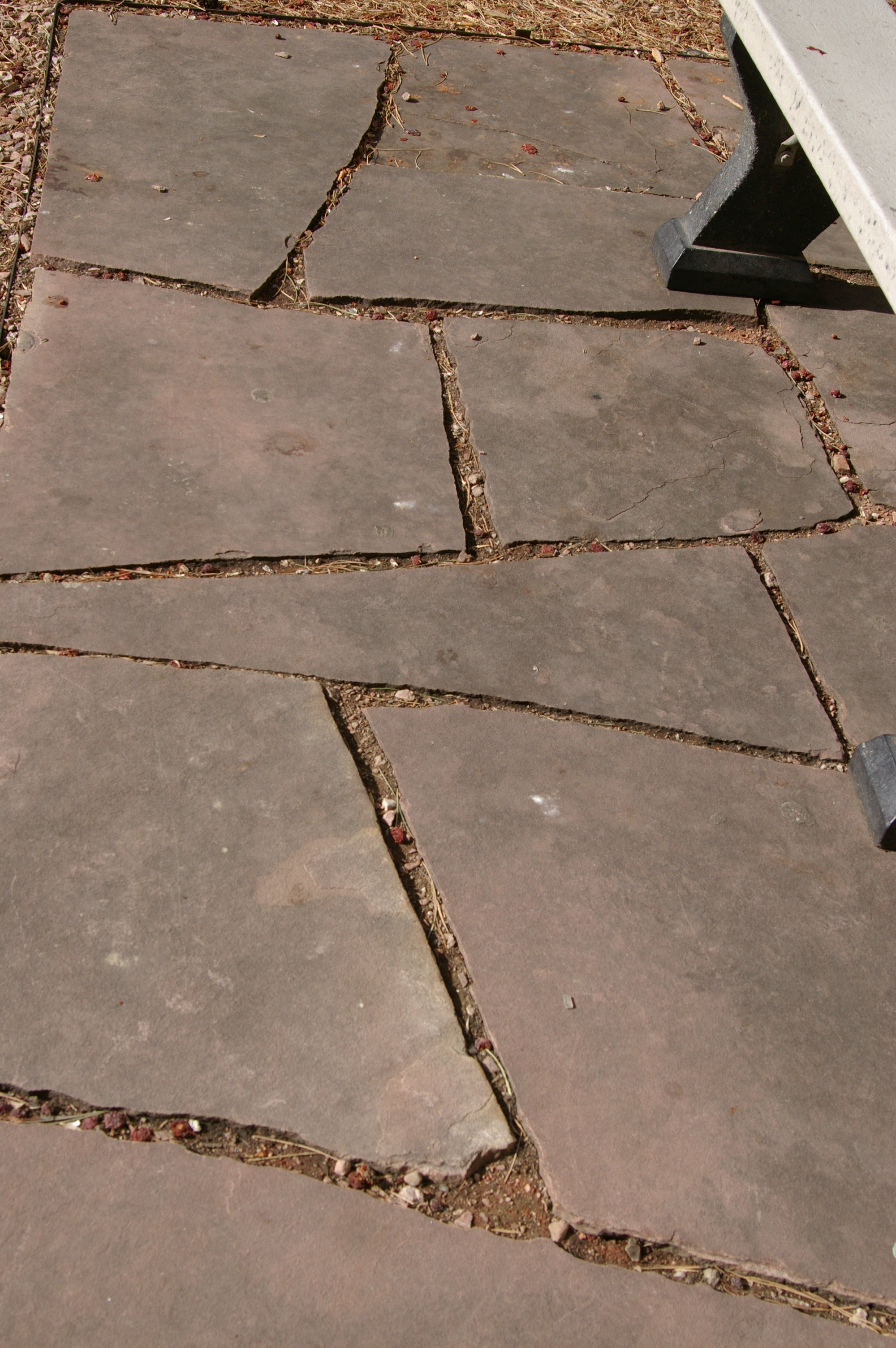 Crazy paving around a picnic table at the University of Colorado at Boulder, near the Engineering Center.